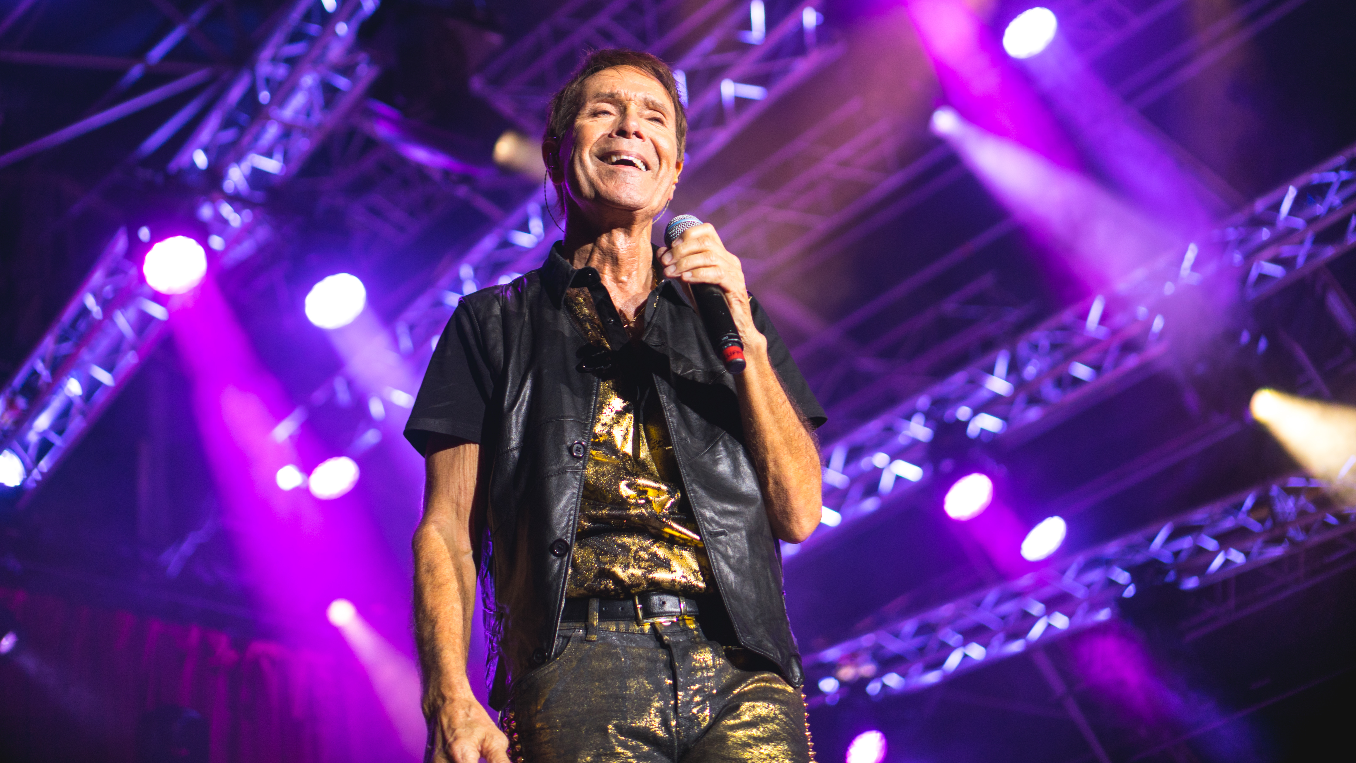 CliffGreenwich010717-43